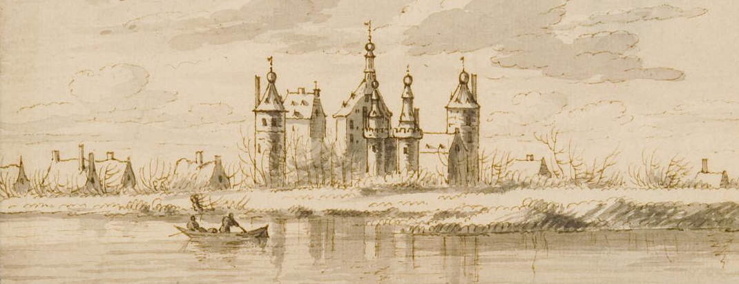 The Castle Batenburg in County Meegen (Netherlands)